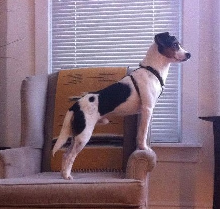 This is the lateral view of a jackabee, the offspring of a Jack Russell terrier and a beagle.